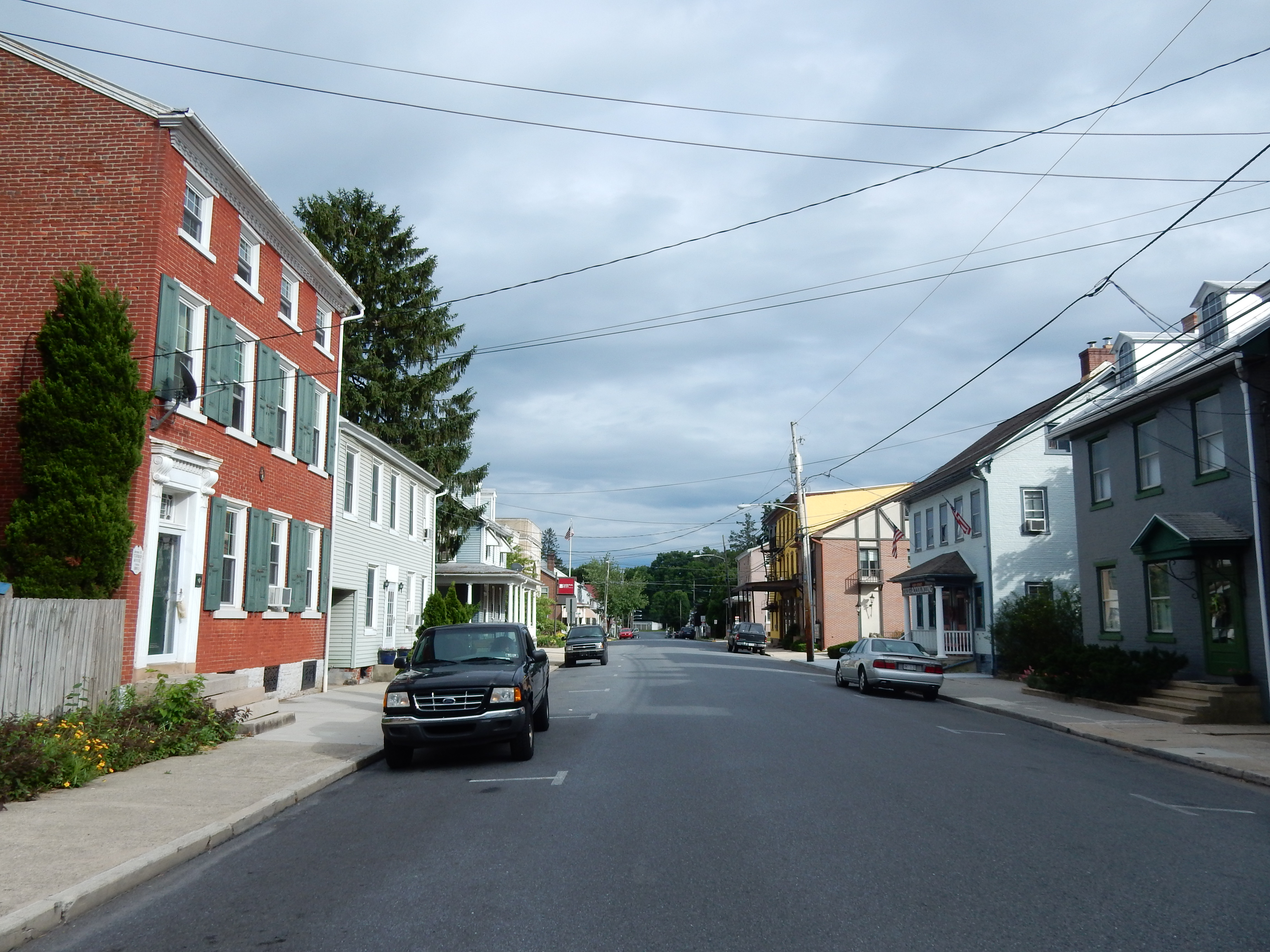 Main St., Bernville, Berks County, Pennsylvania.